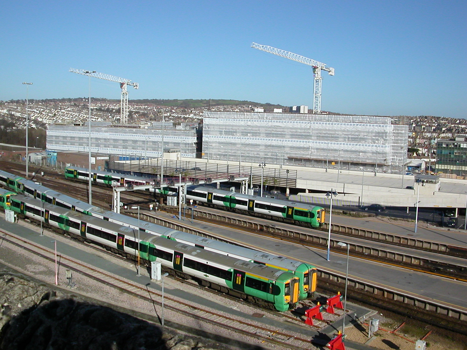 New England Quarter - view towards Blocks L and M from Howard Place. Photographed on 3rd February 2007.